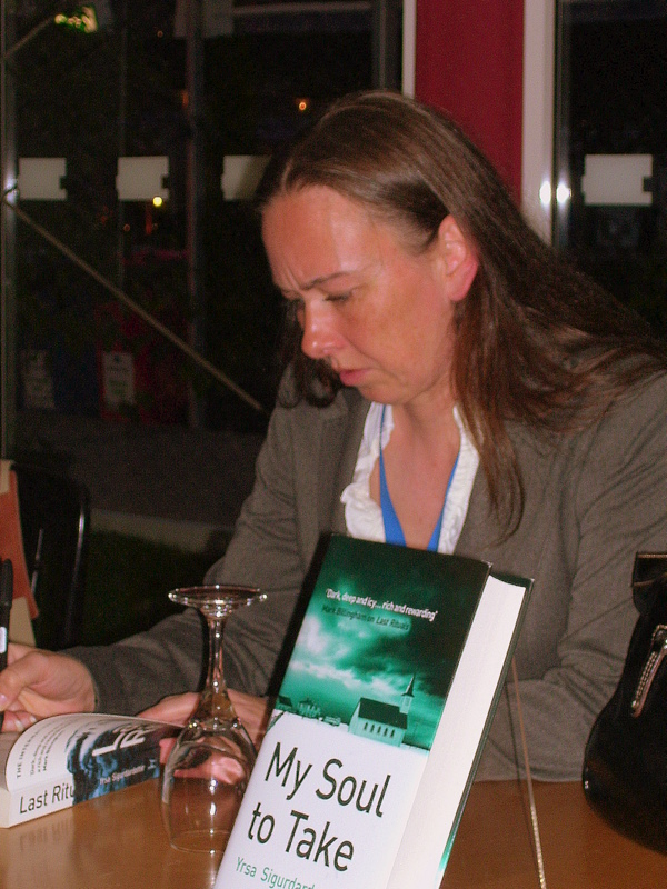 Yrsa Sigurðardóttir, author, at the Edinburgh International Book Festival, 2009